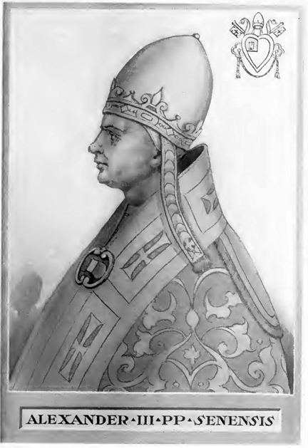 This illustration is from The Lives and Times of the Popes by Chevalier Artaud de Montor, New York: The Catholic Publication Society of America, 1911. It was originally published in 1842.